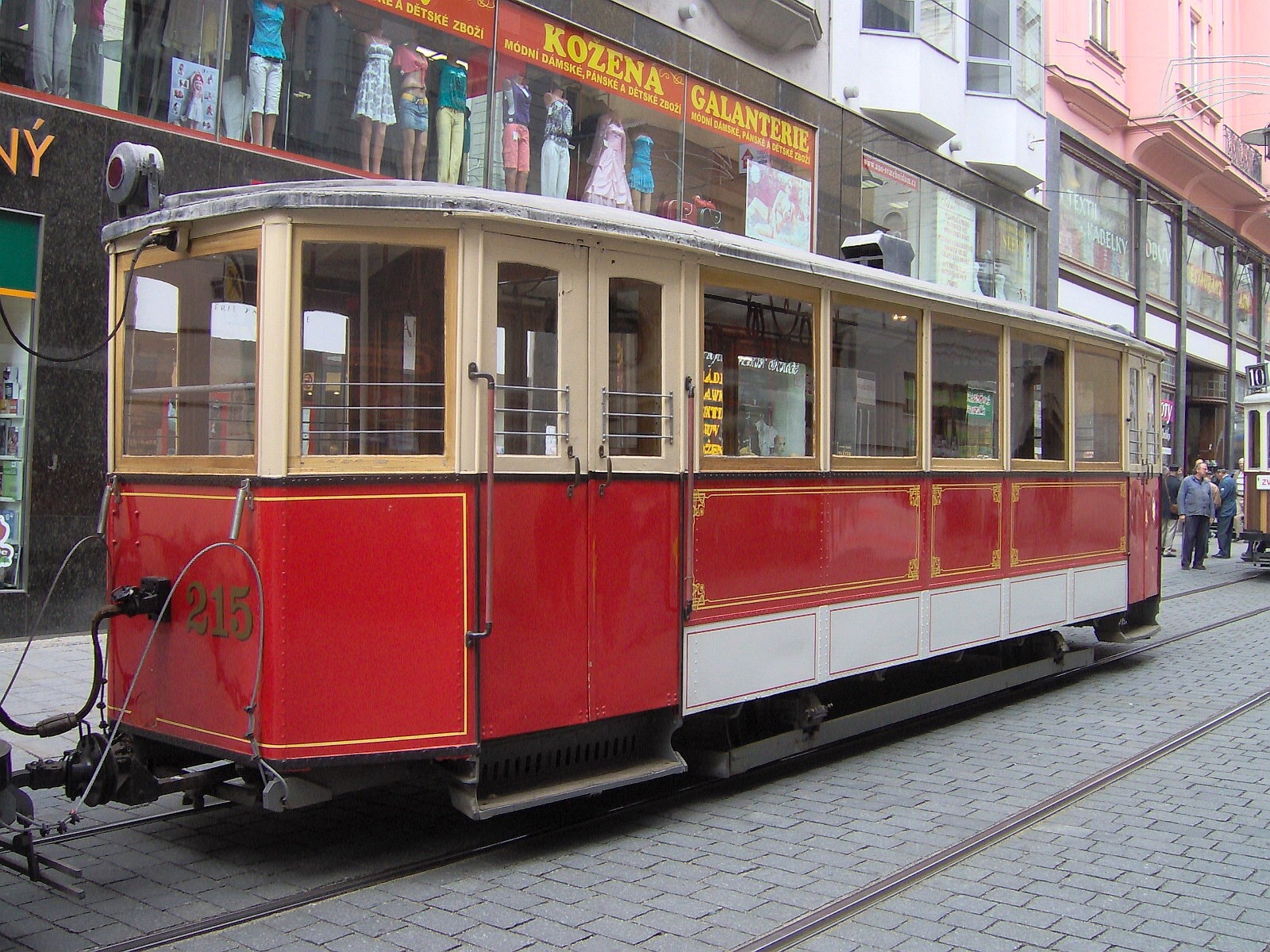 Historical tram No. 107 with trailer No. 215, 140 years of public transport in Brno, Czech Republic